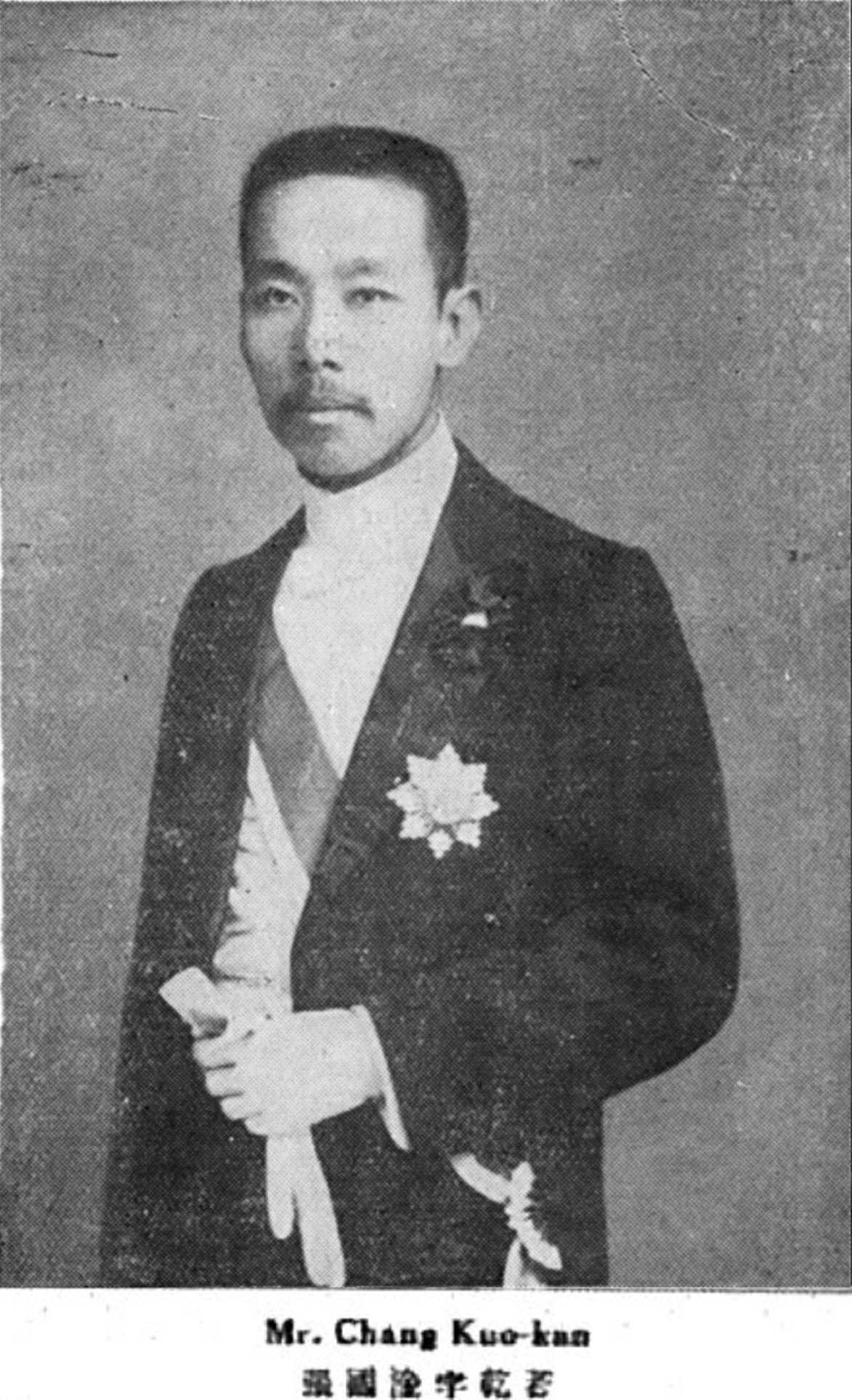 Zhang Guogan, Qianruo (1876 - 1959)